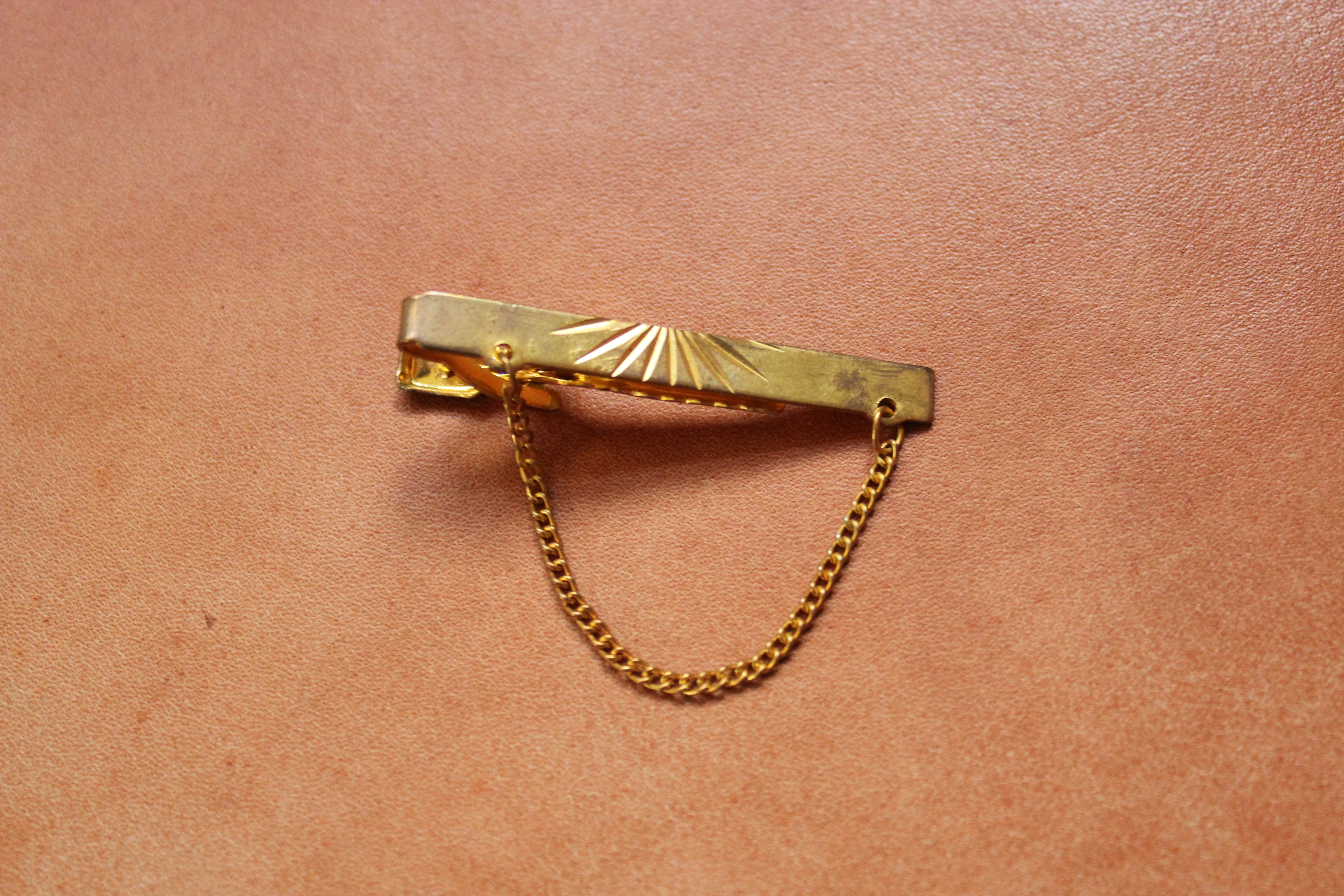 Tie chain with pattern